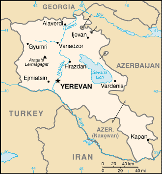 Armenia map from CIA World Factbook, converted from original GIF format